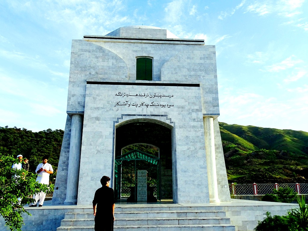 Tomb of Khusal Khan Khattak